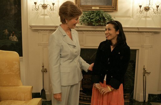 Laura Bush meets with 17-year-old Farah Ahmedi, author of the book, The Story of My Life: An Afghan Girl on the Other Side of the Sky, in the Diplomatic Reception Room at the White House May 5, 2005. In her book, Farah, who now lives near Chicago, recounts her life in war-time Afghanistan.